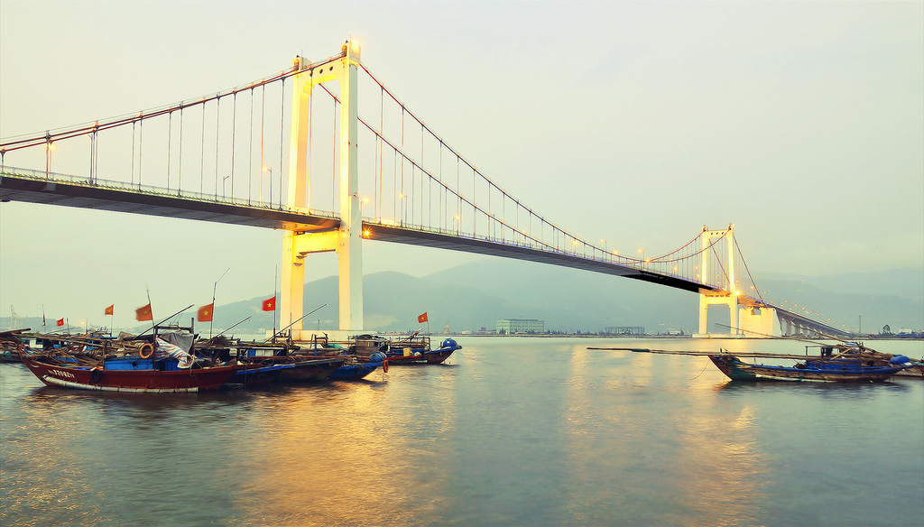 Thuan Phuoc bridge,DN city